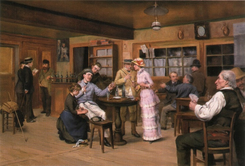 The traveller's rest, 1882